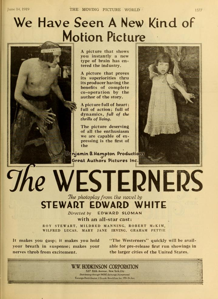 Advertisement for the film based on The Westerners, a novel by Stewart Edward White, in The Moving Picture Word.